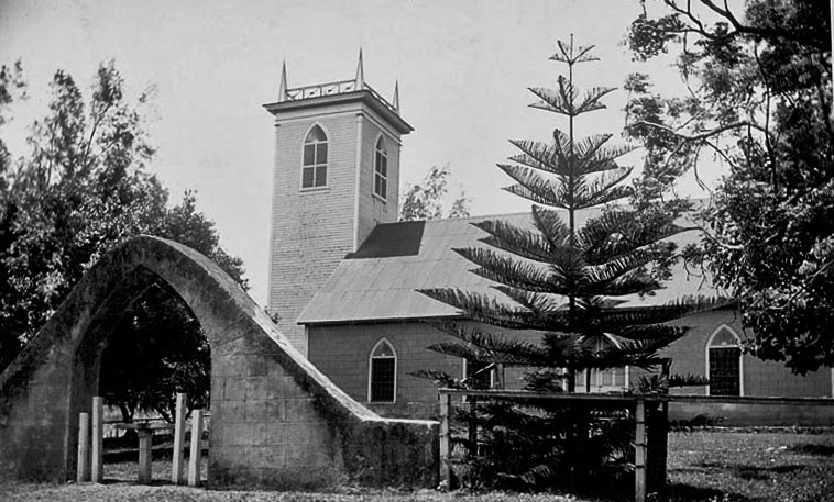 Kalahikiola Church, also known as "Kohala Hawaiian Church" — was founded by missionary Elias Bond and dedicated in 1855. Within the present day Bond Historic District, on the North Kohala coast of the Big Island of Hawaiʻi. It is a contributing property to the National Register of Historic Places Bond Historic District #78001016